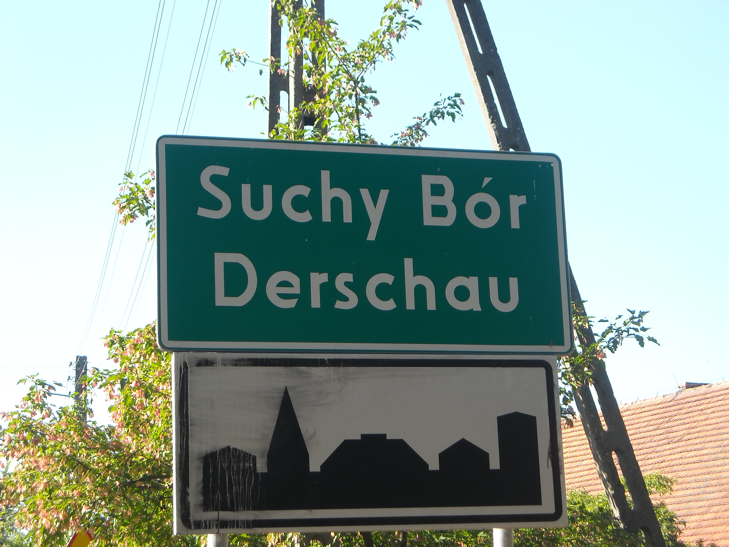 Sign of Suchy Bor